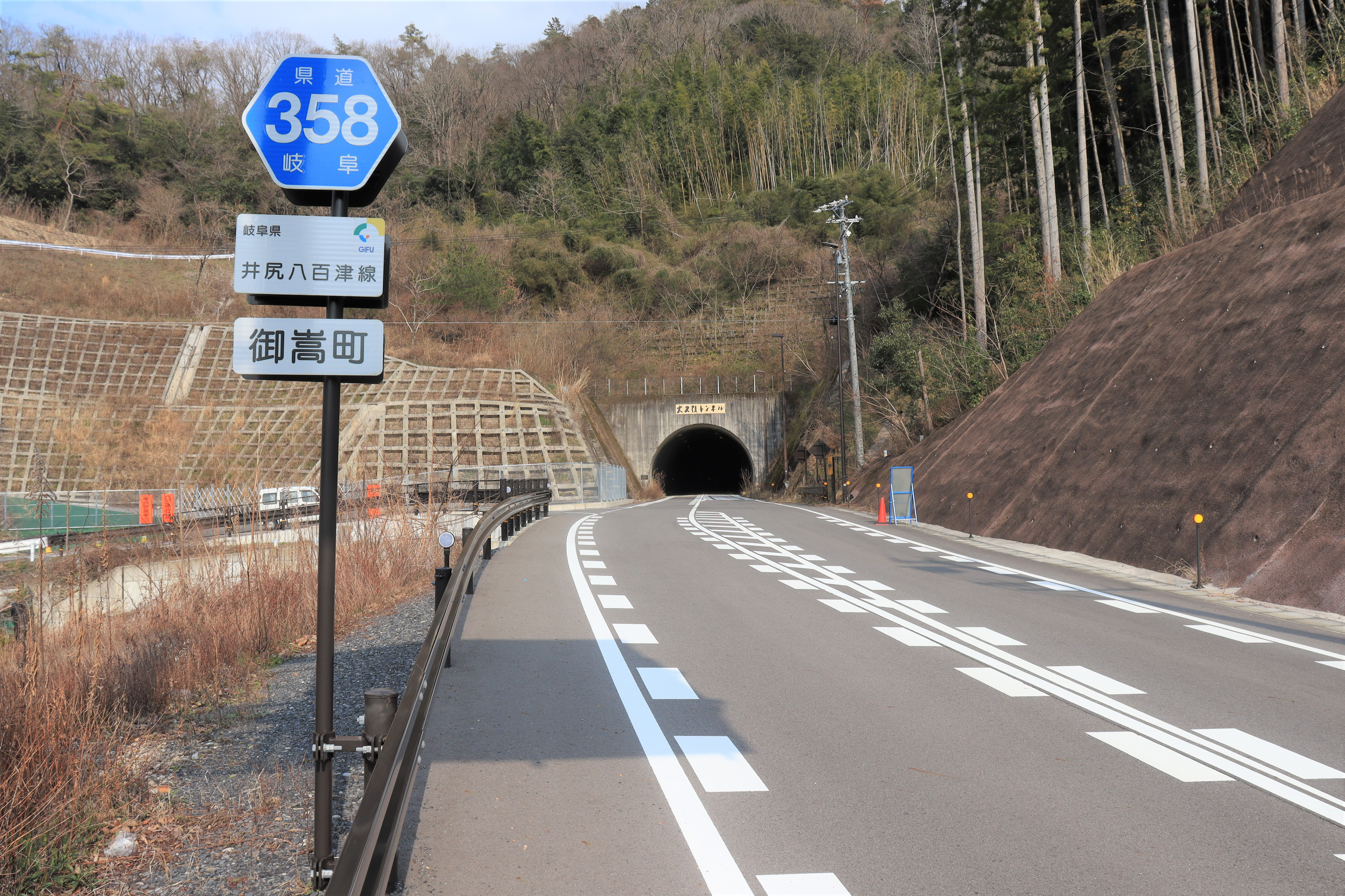 Gifu Prefectural Road Route 358 and Okubo Tunnel in Kowasawa, Mitake, Gifu Prefecture, Japan.